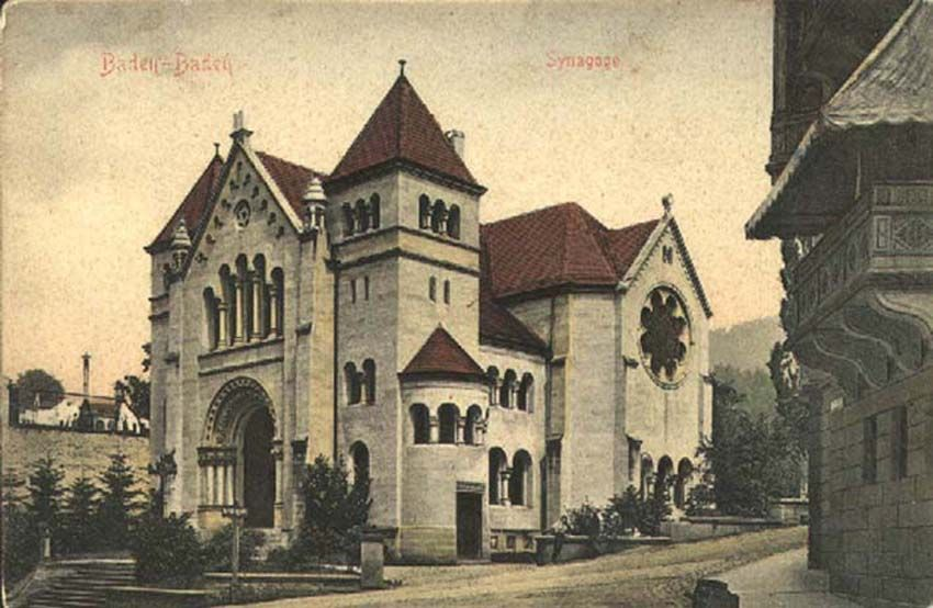 Postcard of the synagogue in Baden-Baden (Germany) destroyed in 1938 during the Kristallnacht.